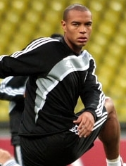 Matteo Ferrari